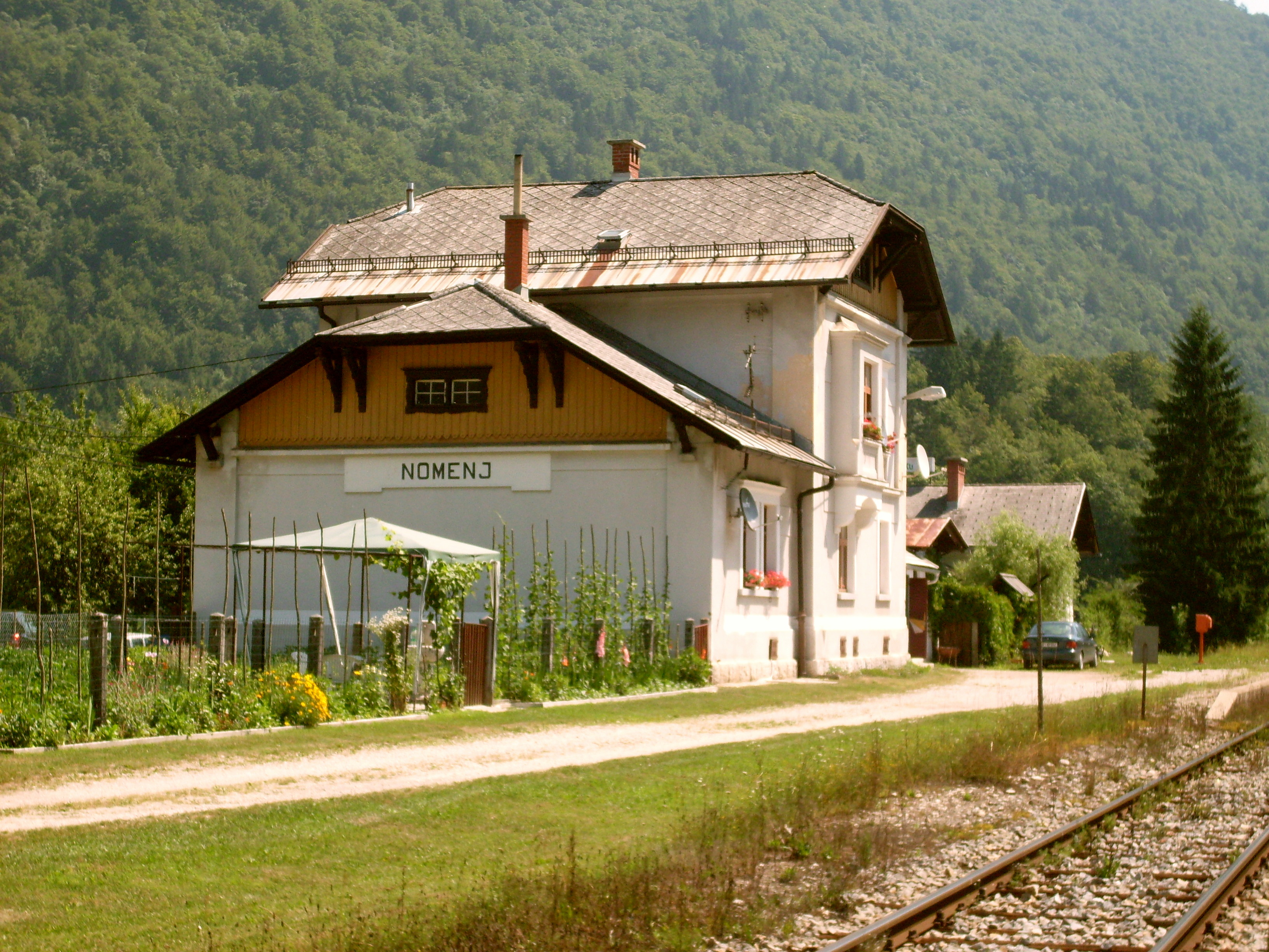 Railway halt in Nomenj, Slovenia